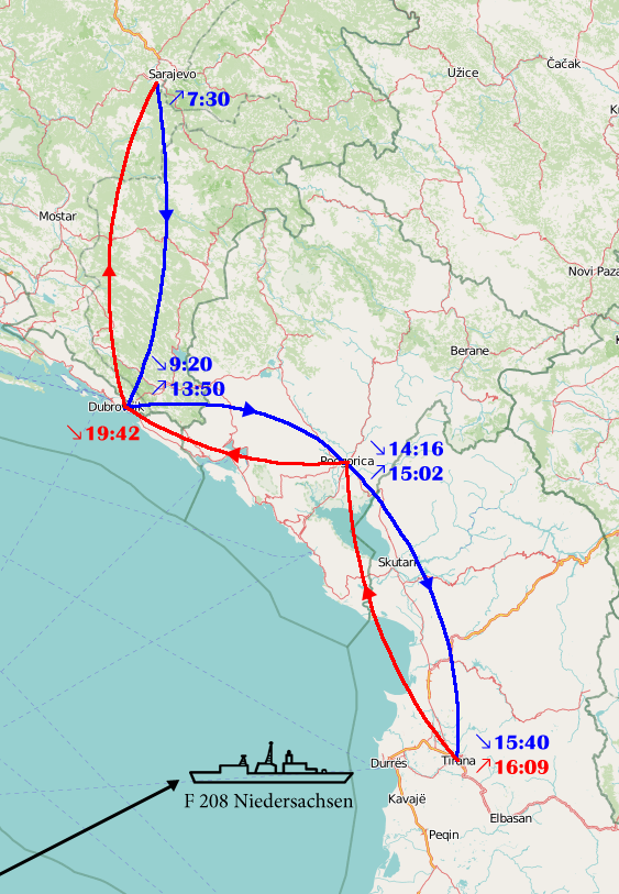 Map of Operation Libelle 14.03 1997